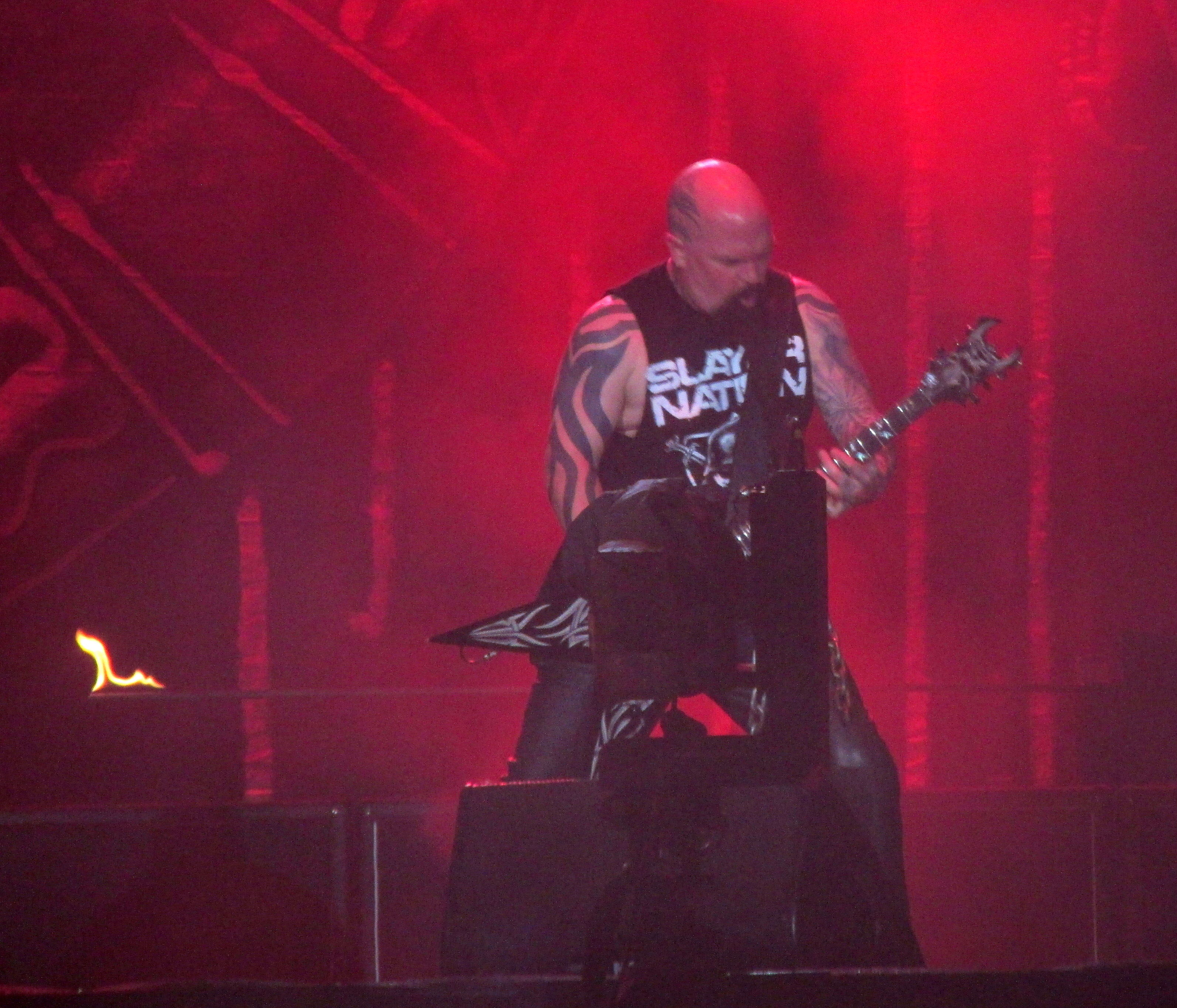 Kerry King at Wacken 2014